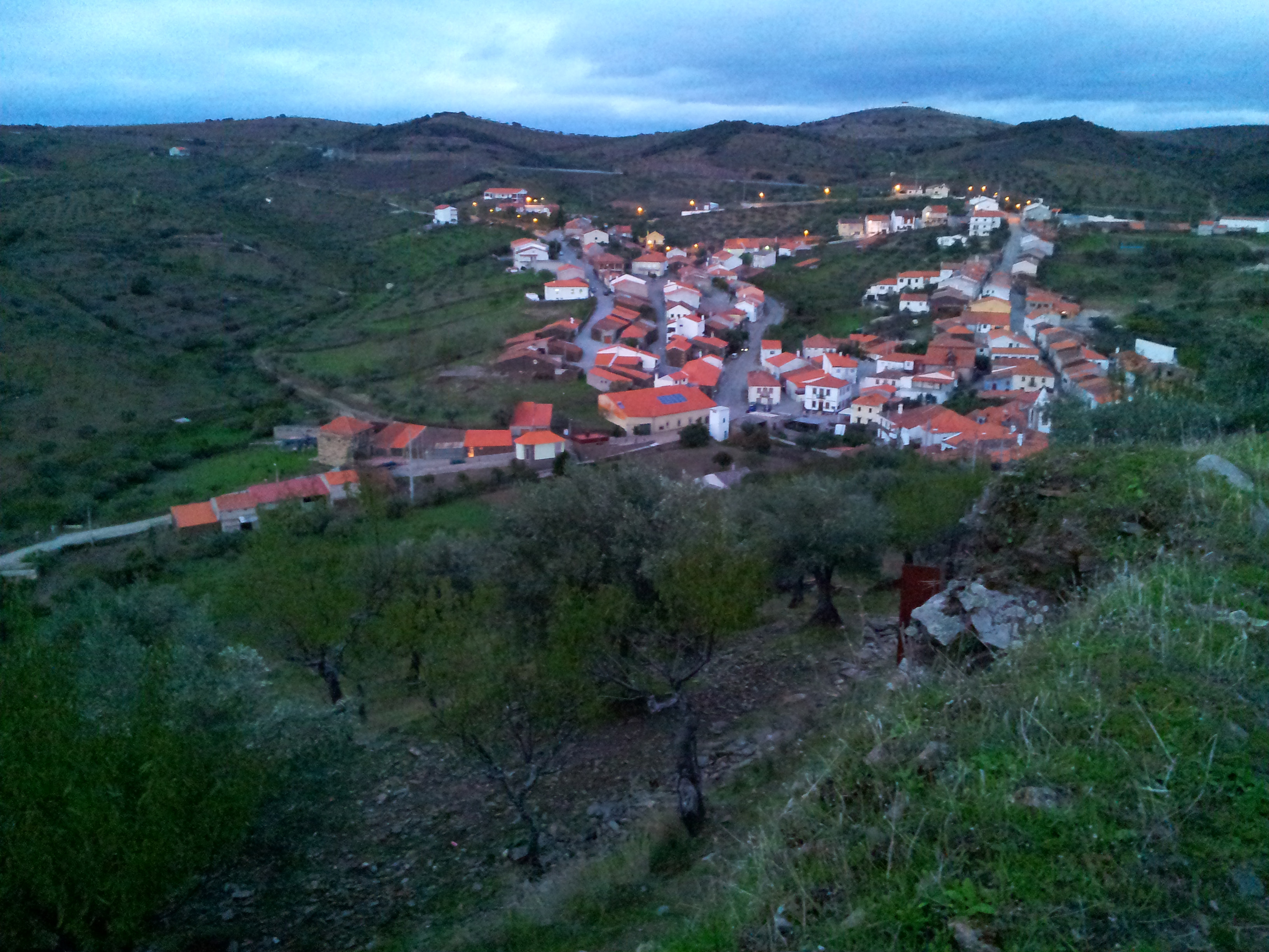 View of Castelo Melhor from its castle (Guarda, Portugal).